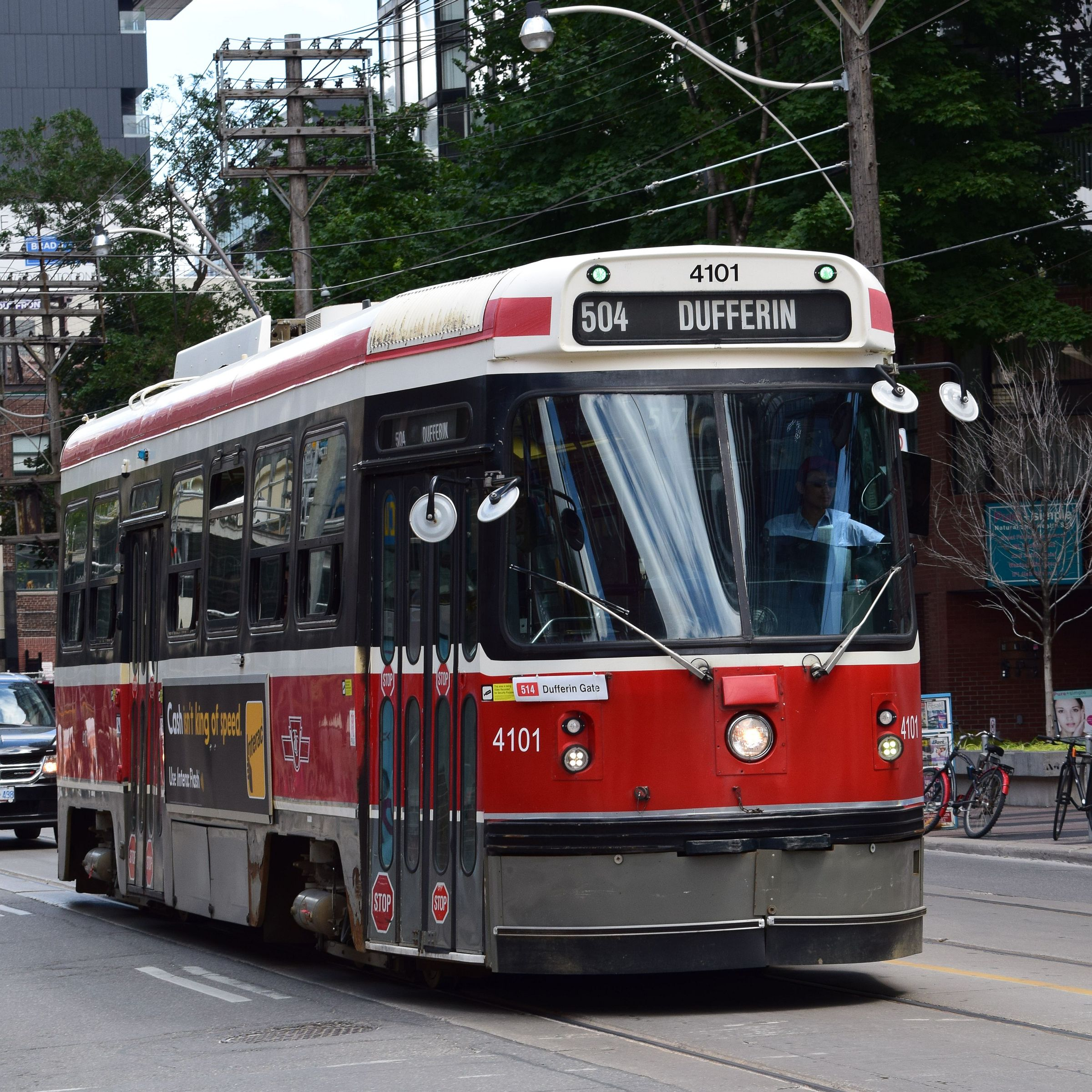 Streetcar with sign "504 Dufferin" which is actually on route 514 Cherry going to Dufferin Gate Loop. There are currently no roll signs on older streetcars with this route number and its destinations.